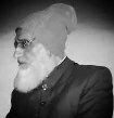 Shamim Hashimi famous urdu poet